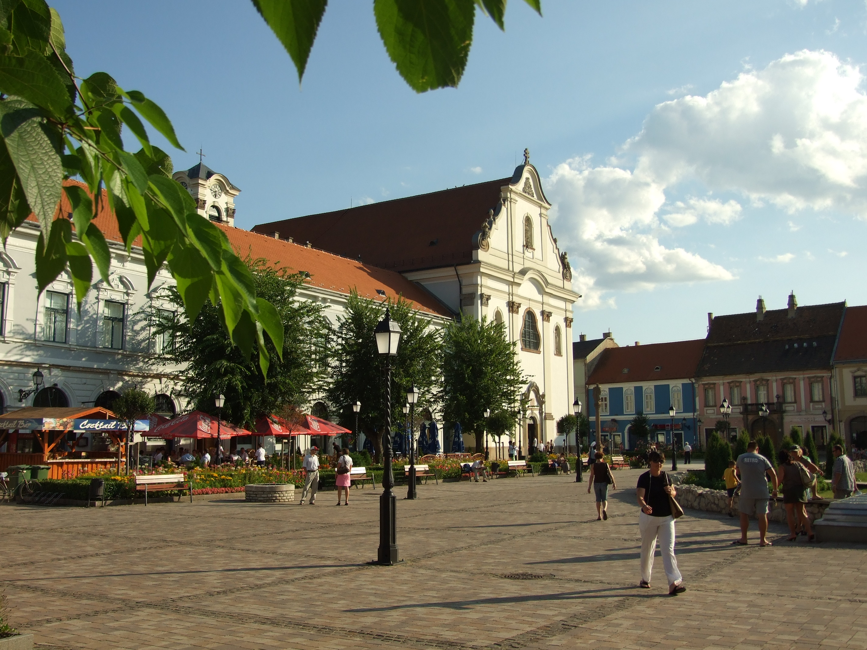 City of Vác, Pest comitat, Hungary